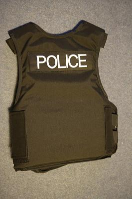 Photo of a stab vest